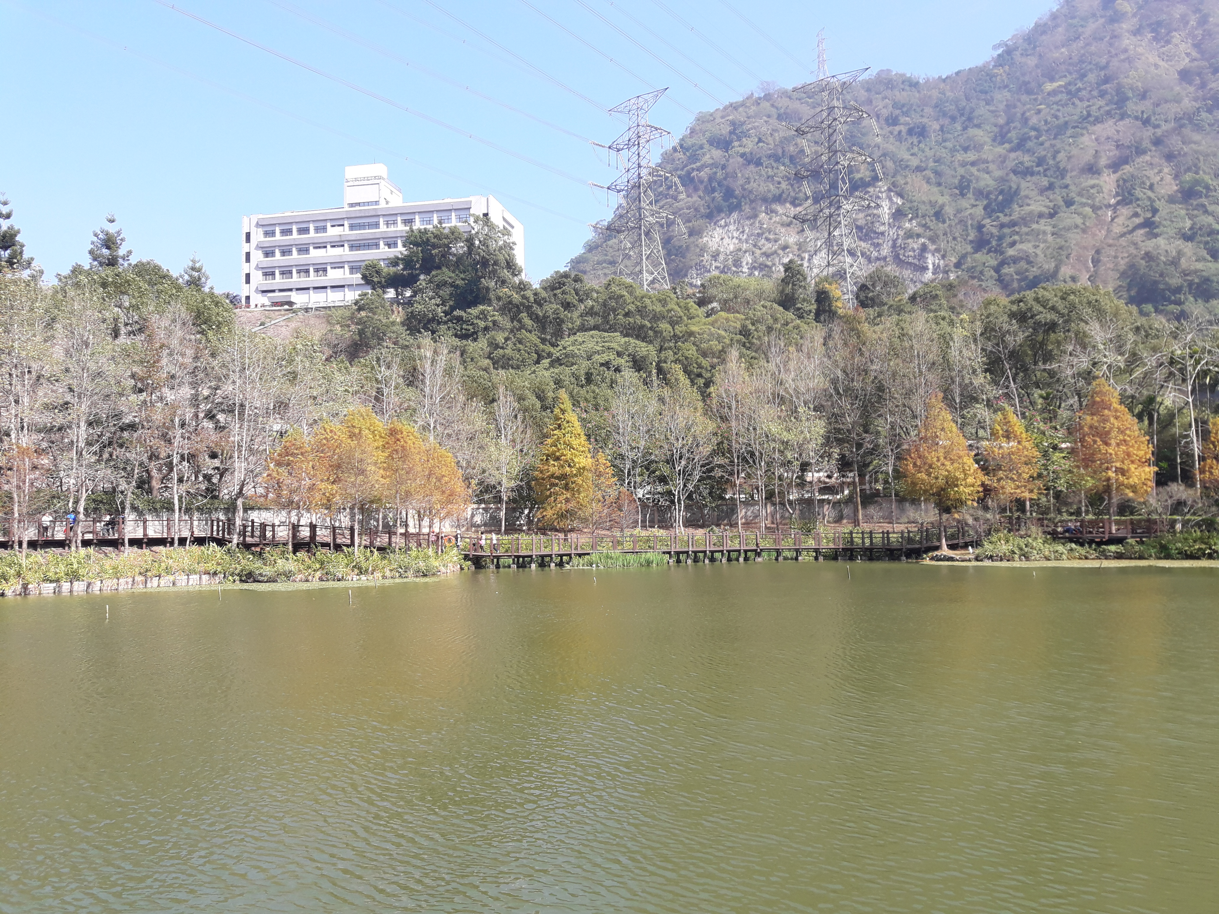 Checheng Log Pond, Shuili Township, Nantou County, the ROC中文（台灣）: 中華民國南投縣水里鄉車埕貯木池